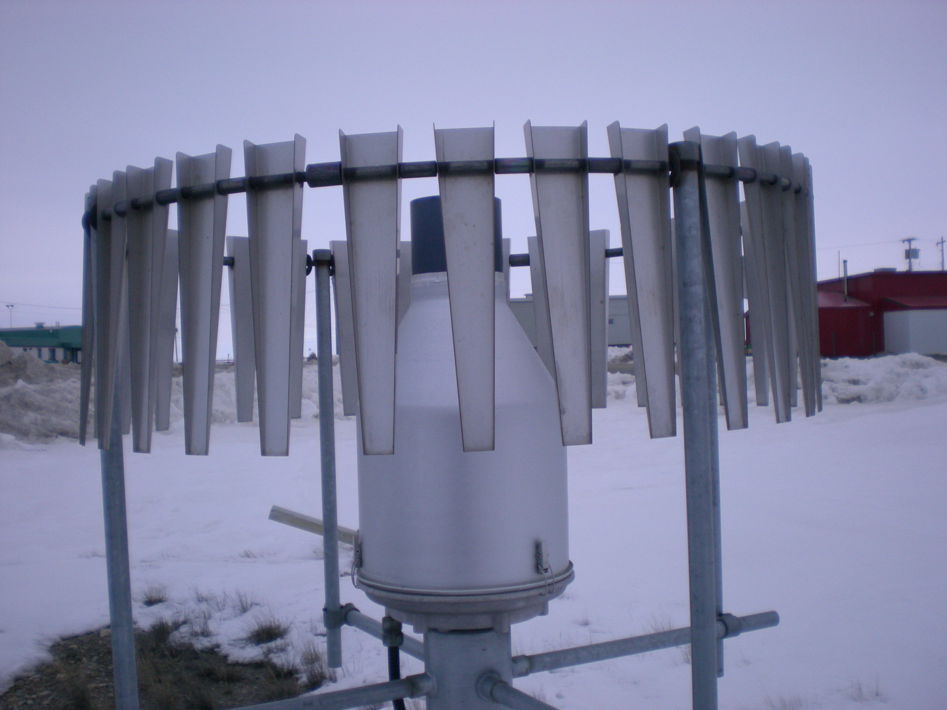 Automatic precipitation gauge used to measure both snow and rain fall.